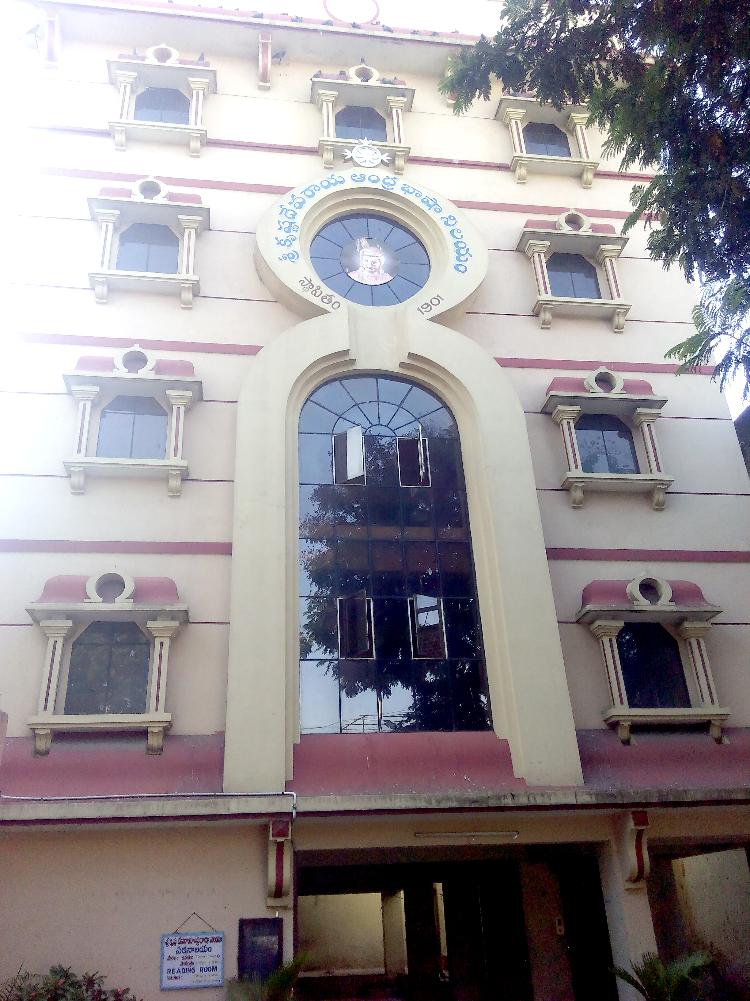 ఇది తెలంగాణాలో అతి పురాతన గ్రంధాలయం, This is oldest library of Telangana State